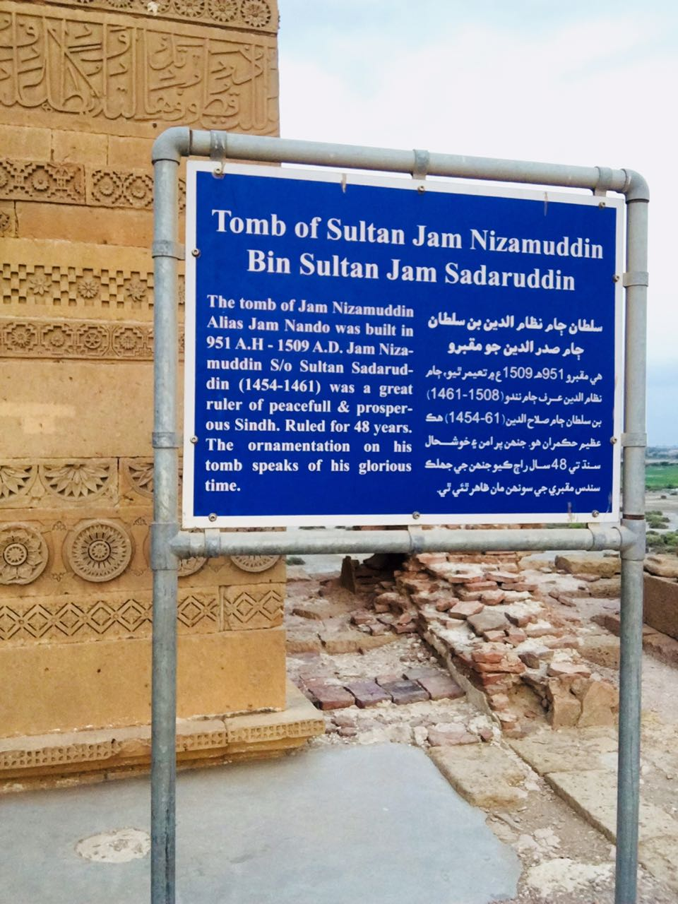 Tomb Of Sultan Jam Nizamuddin Bin Sultan Jam Sadaruddin سنڌي: ڄام نظام الدين بن سلطان ڄام صدرالدين جو مقبرو